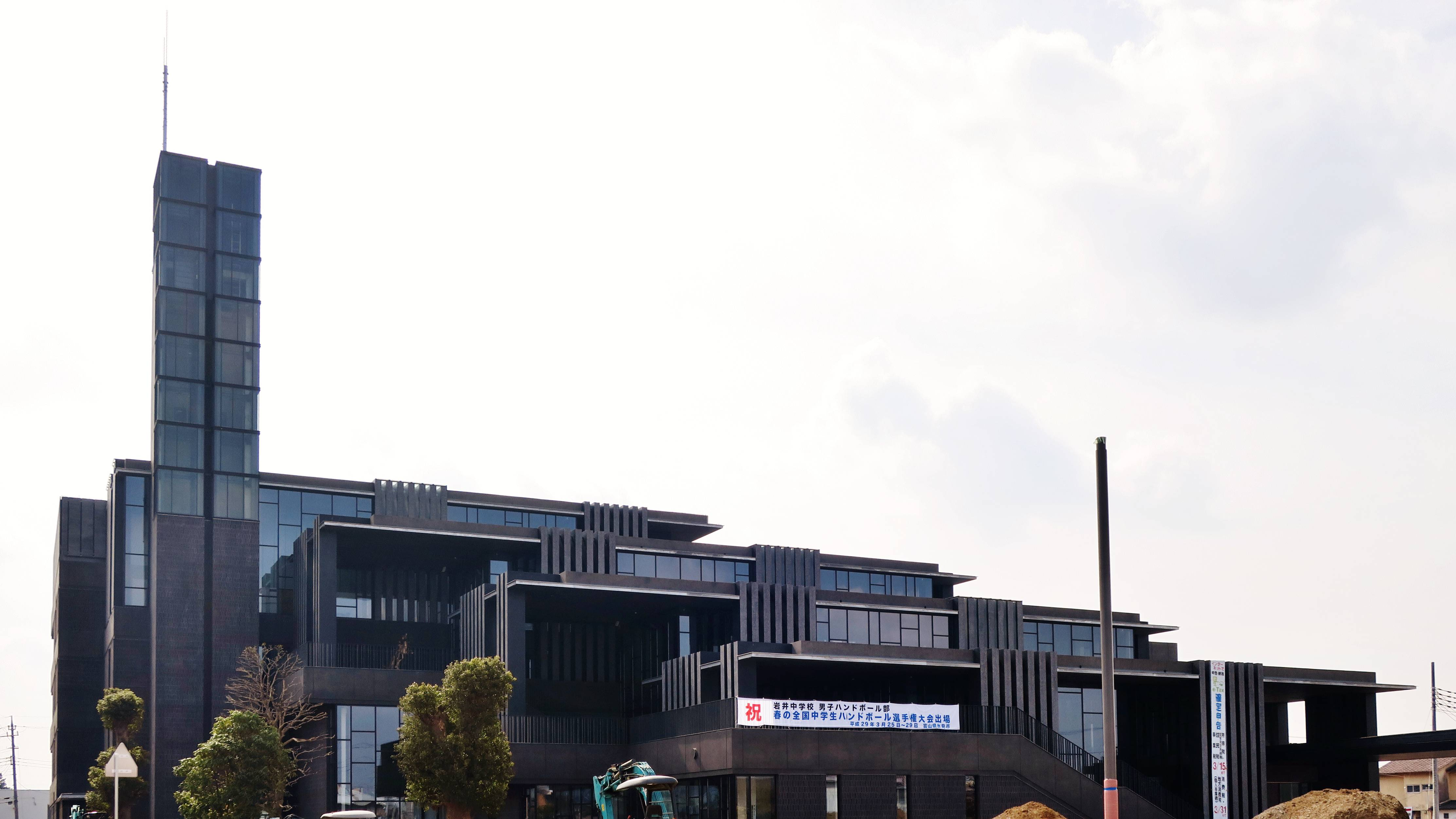 Bando city office.